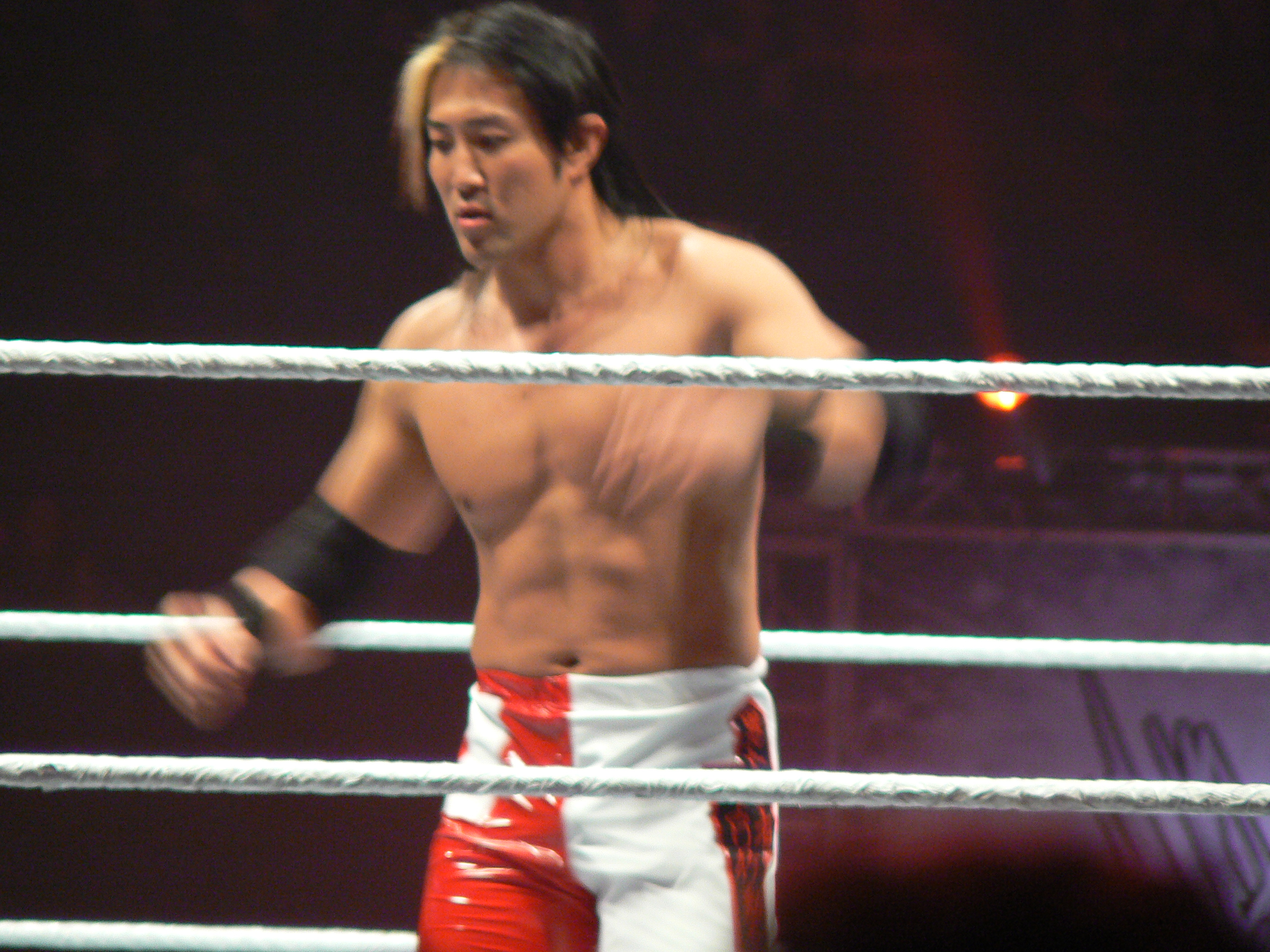 Yoshi Tatsu at WWE Raw in the O2 Arena on Tuesday 9th November 2010.